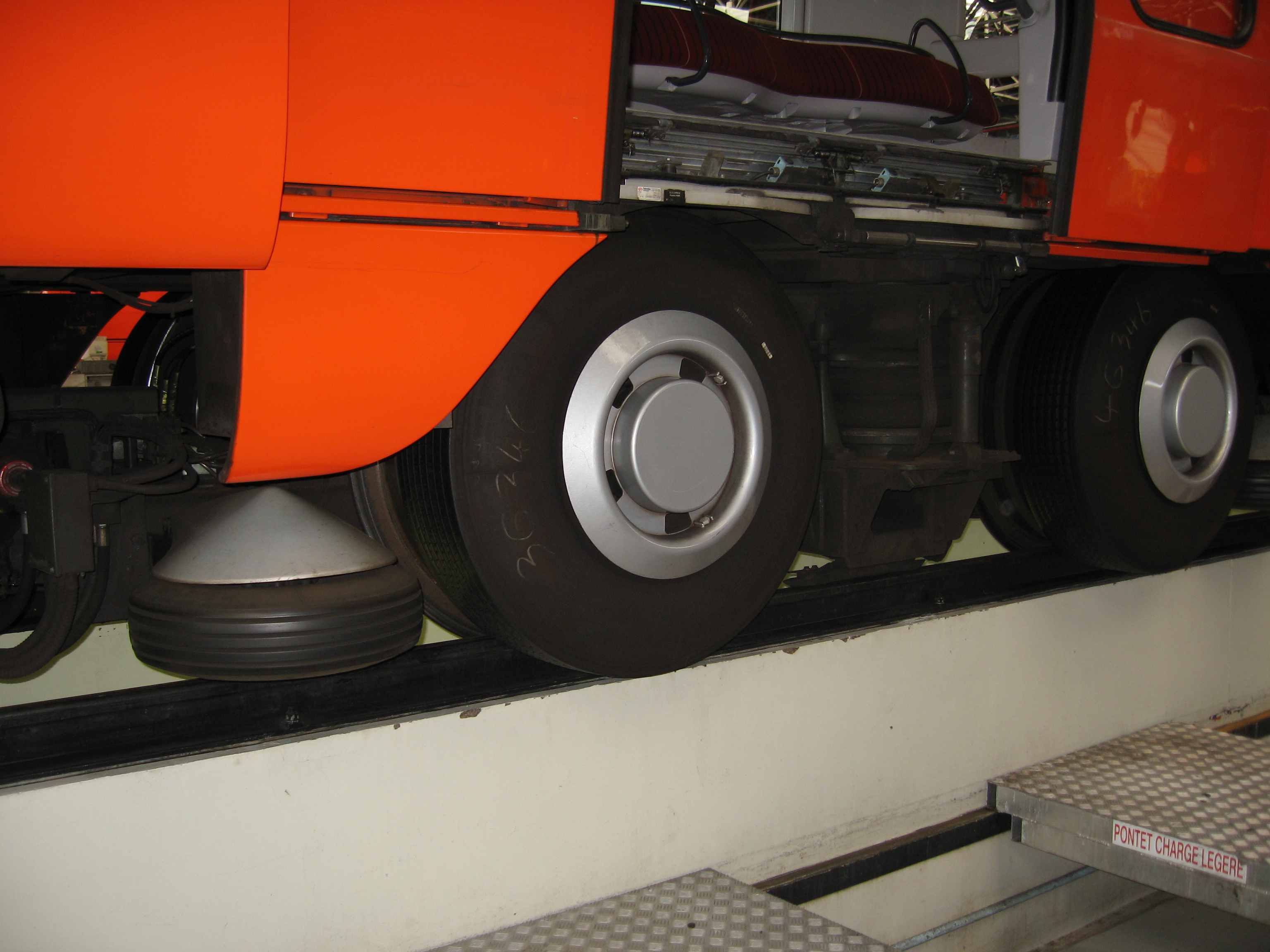 Rubber-tired metro in Lyon, France: bogie in the garage